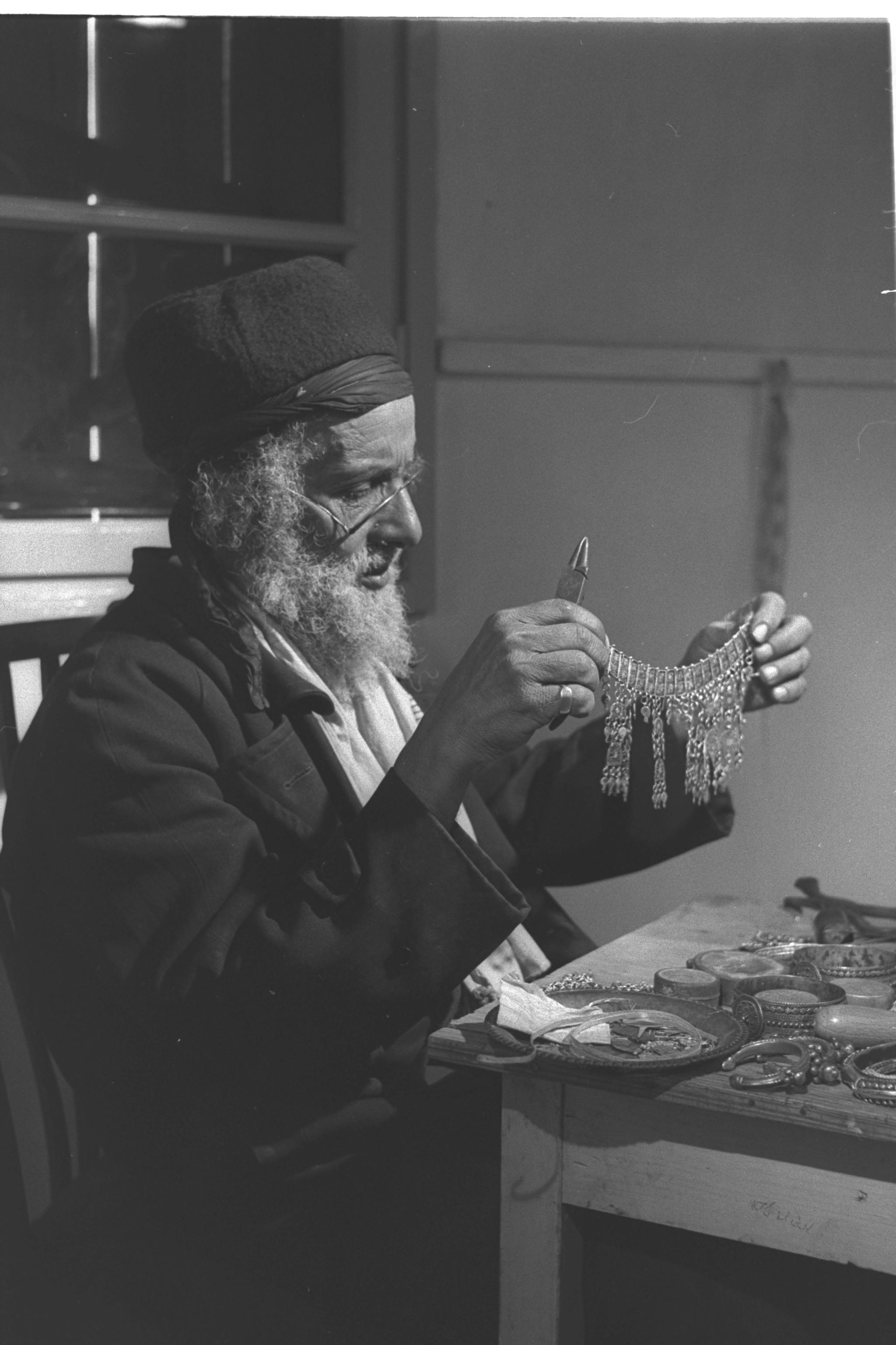 Yosef Yosef a silversmith at Maskit